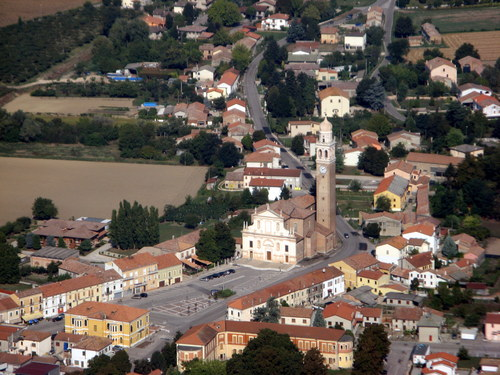 Aerial view of center